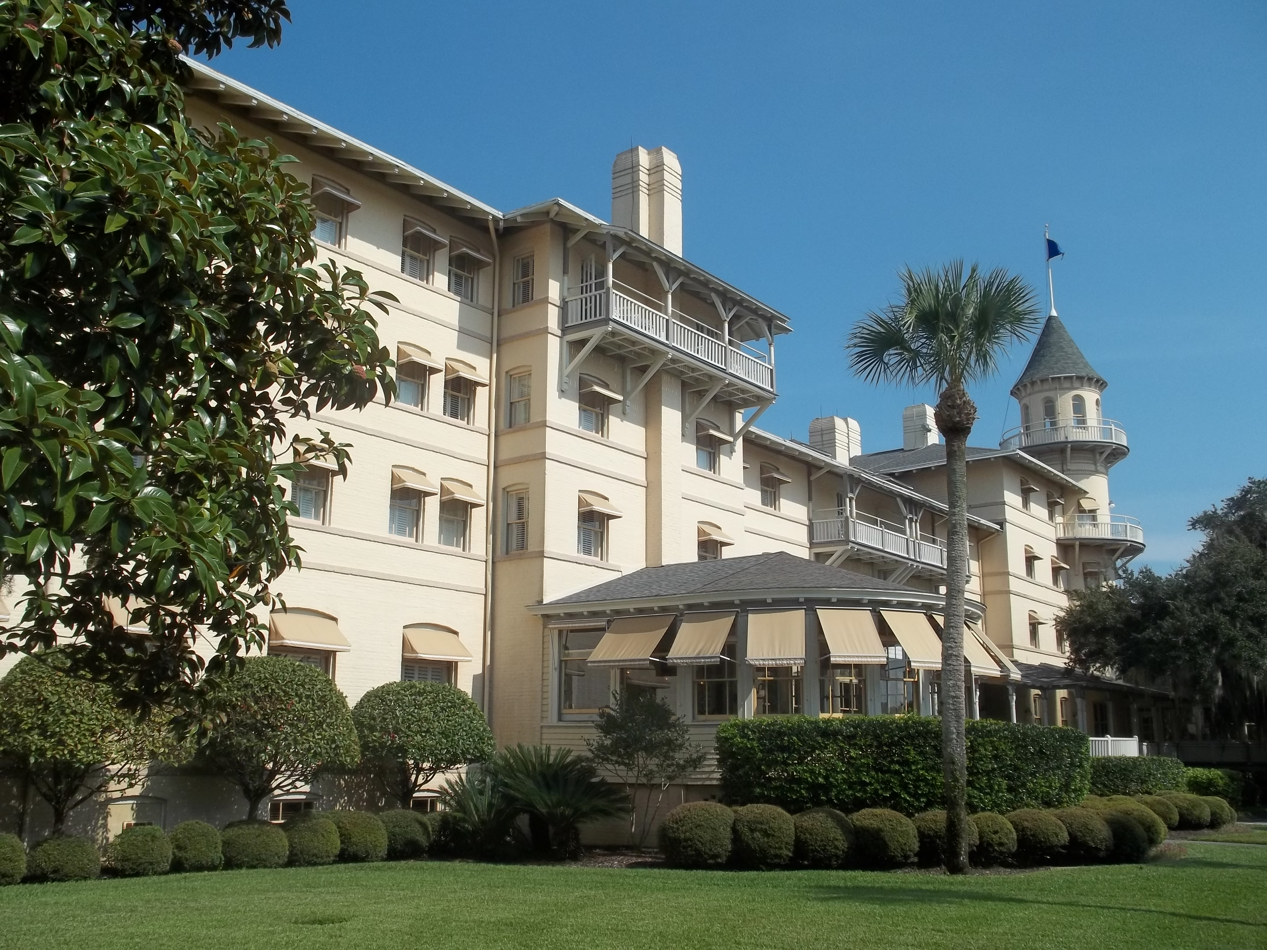 Jekyll Island: Old clubhouse, now a hotel